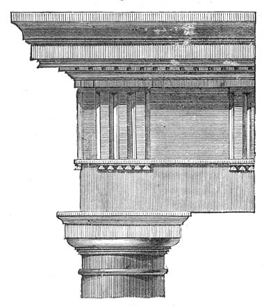 The Roman Doric order, engraving illustration of the Roman-Doric order from the Theater of Marcellus, from A. Rosengarten (english translation by W. Collett-Sandars), A Handbook of Architectural Styles, (London: Chatto & Windus, 1912), p 116, ill. 195. This book was also previously published in NYC by Charles Scribner's Sons, 1898[1]. There also appears to be another London printing of 1886[2]. The author's date of death is not known. Image from